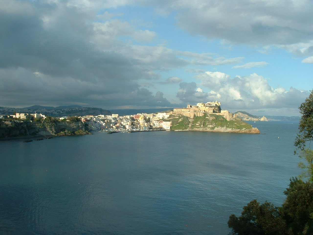 Italy - island of Procida - Little harbour of Corricella and Terra Murata. Views of Procida from Cape Pizzaco - photo by utente:Retaggio